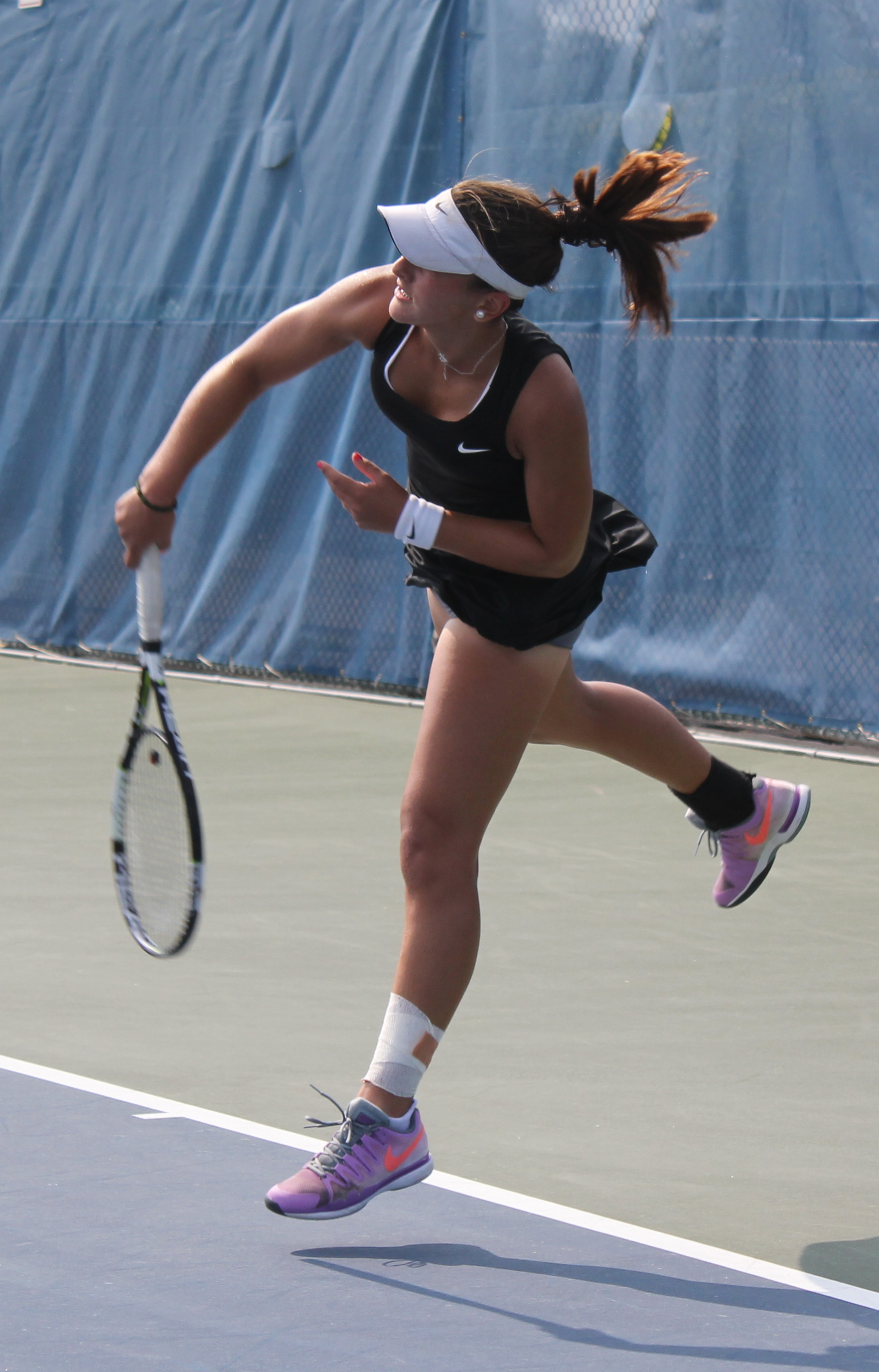 Bianca Andreescu hits a serve during the 2015 U18 Outdoor Rogers Junior Nationals final.